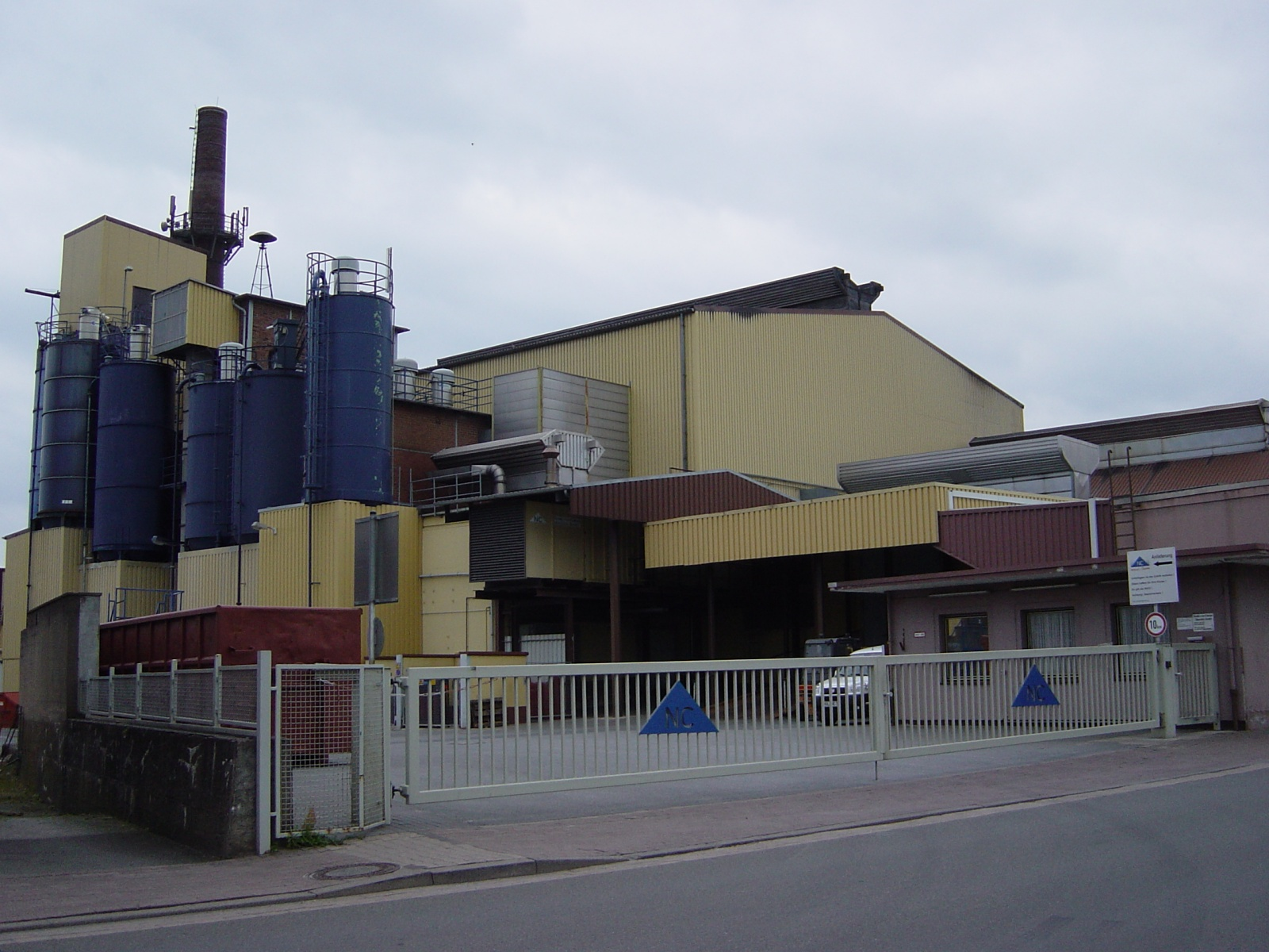 Noelle & von Campe glassworks in Boffzen Höxter (Germany)